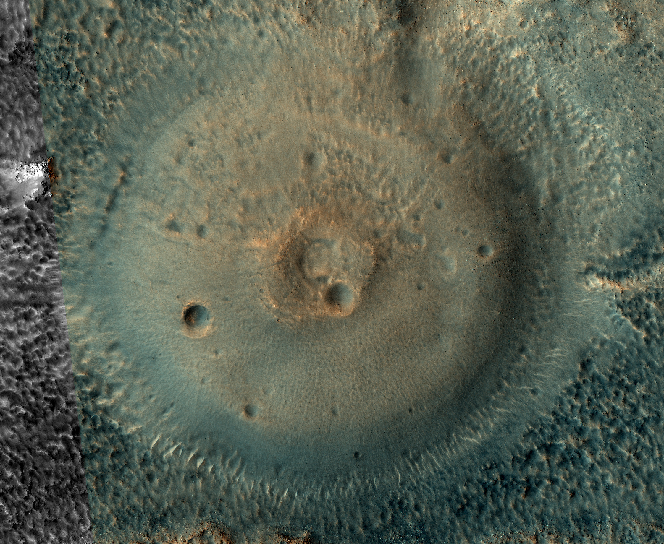 A possible mud volcano on Acidalia Planitia photographed by the HiRISE instrument aboard Mars Reconnaissance Orbiter. The contrast and brightness has been changed from the original. Colour data lacks for the leftmost part of the image.